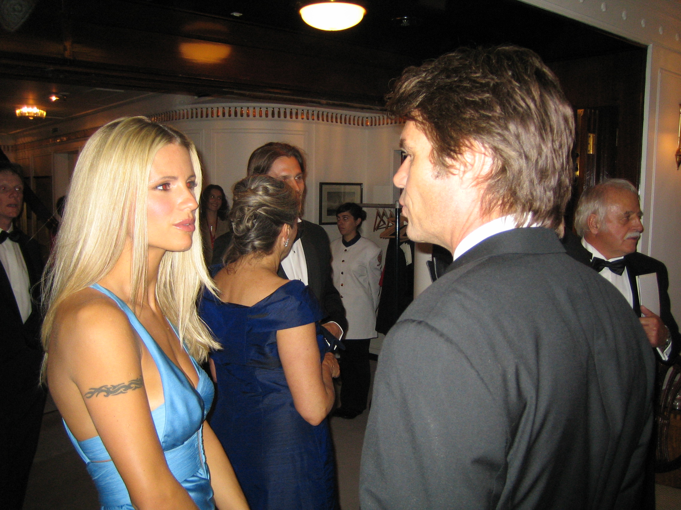 Michelle Hunziker talking to Harry Hamlin on board the Royal Yacht Britannia on the occasion of the birthday celebrations for Swiss Hollywood star and legendary first Bond girl Ursula Andress in Edinburgh on May 18, 2006. In the background is Harry Hamlin's and Ursula Andress's son Dimitri.